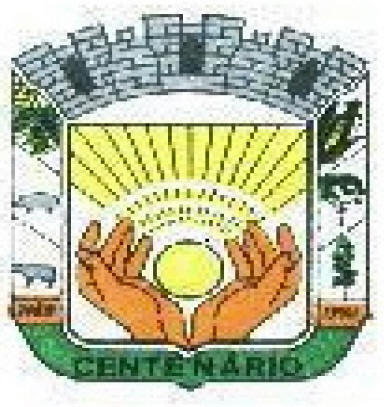 Coat of arms of the city of Centenário, Rio Grande do Sul, Brazil.